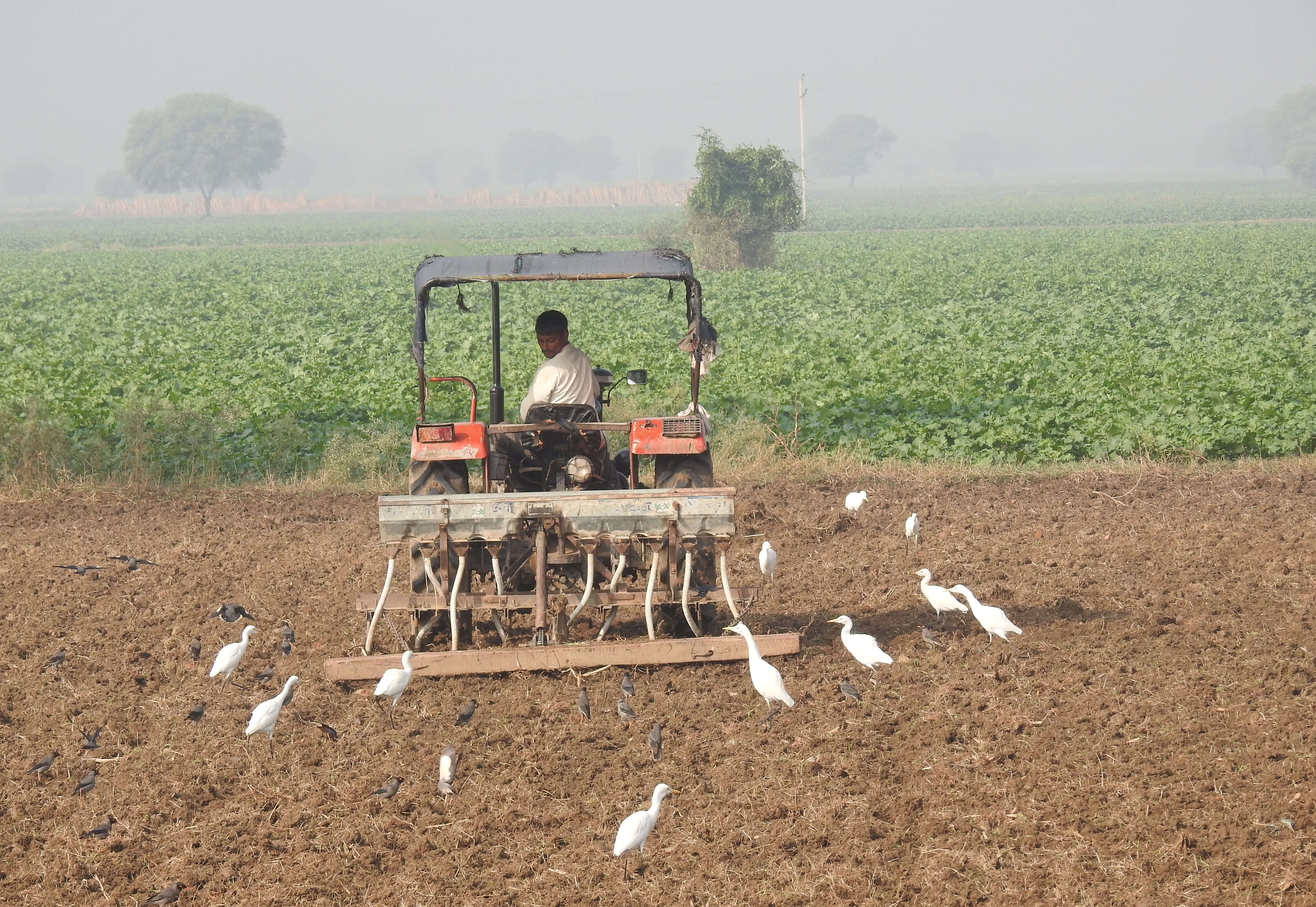 Birds in agriculture. Photo by Dr. Raju Kasambe near Saifei, district Etawah, Uttar Pradesh, India.